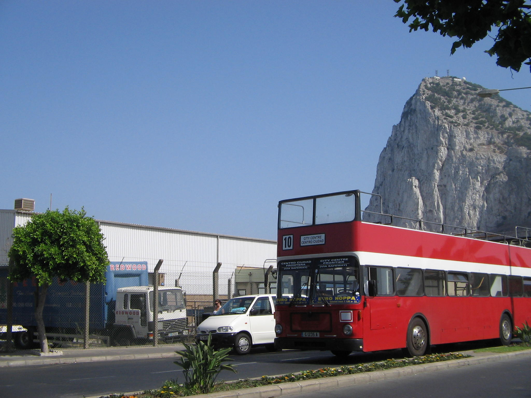 Open-top bus in Gibraltar 2005